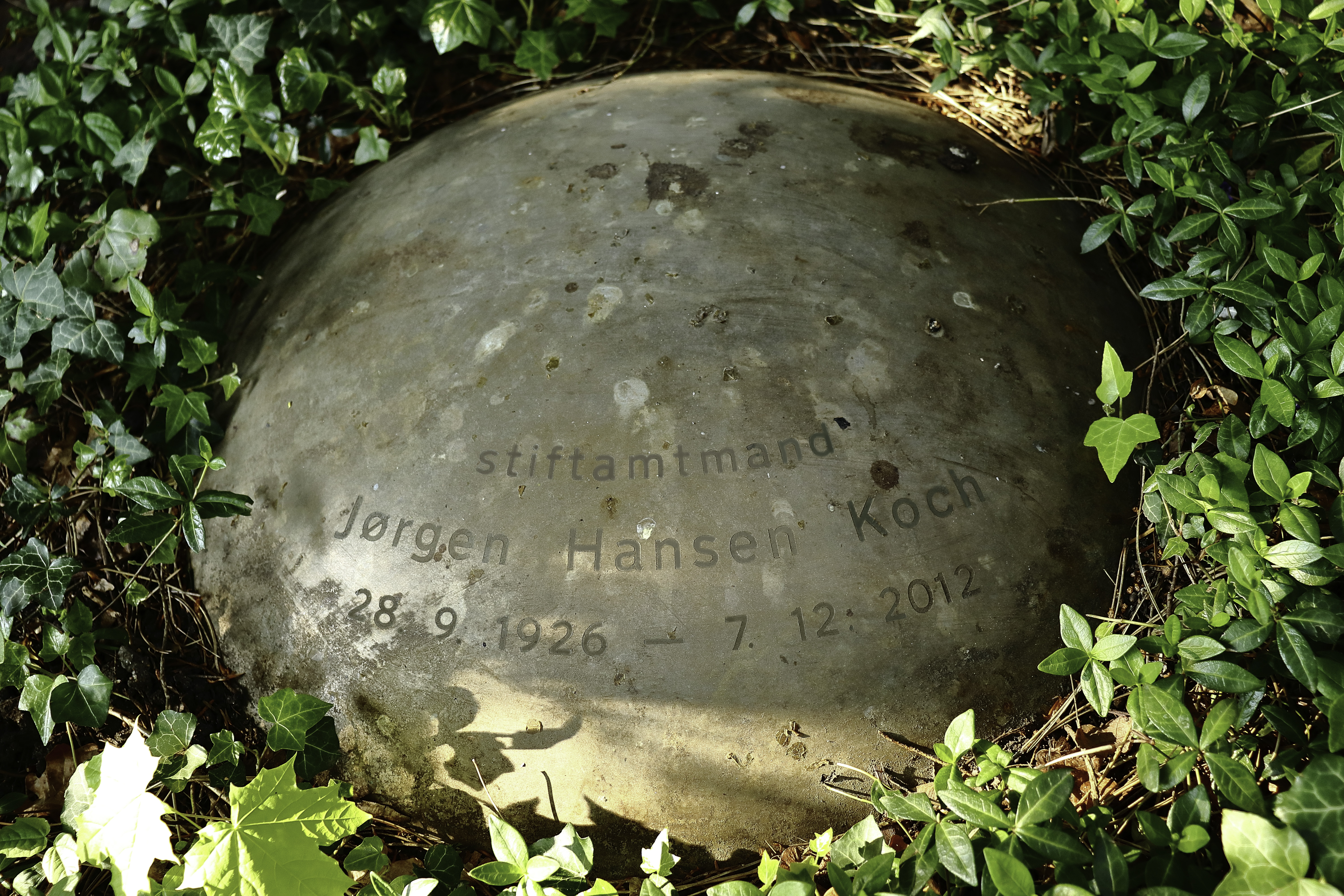 Tombstone of Jørgen Hansen Koch at Western Cemetary, Copenhagen